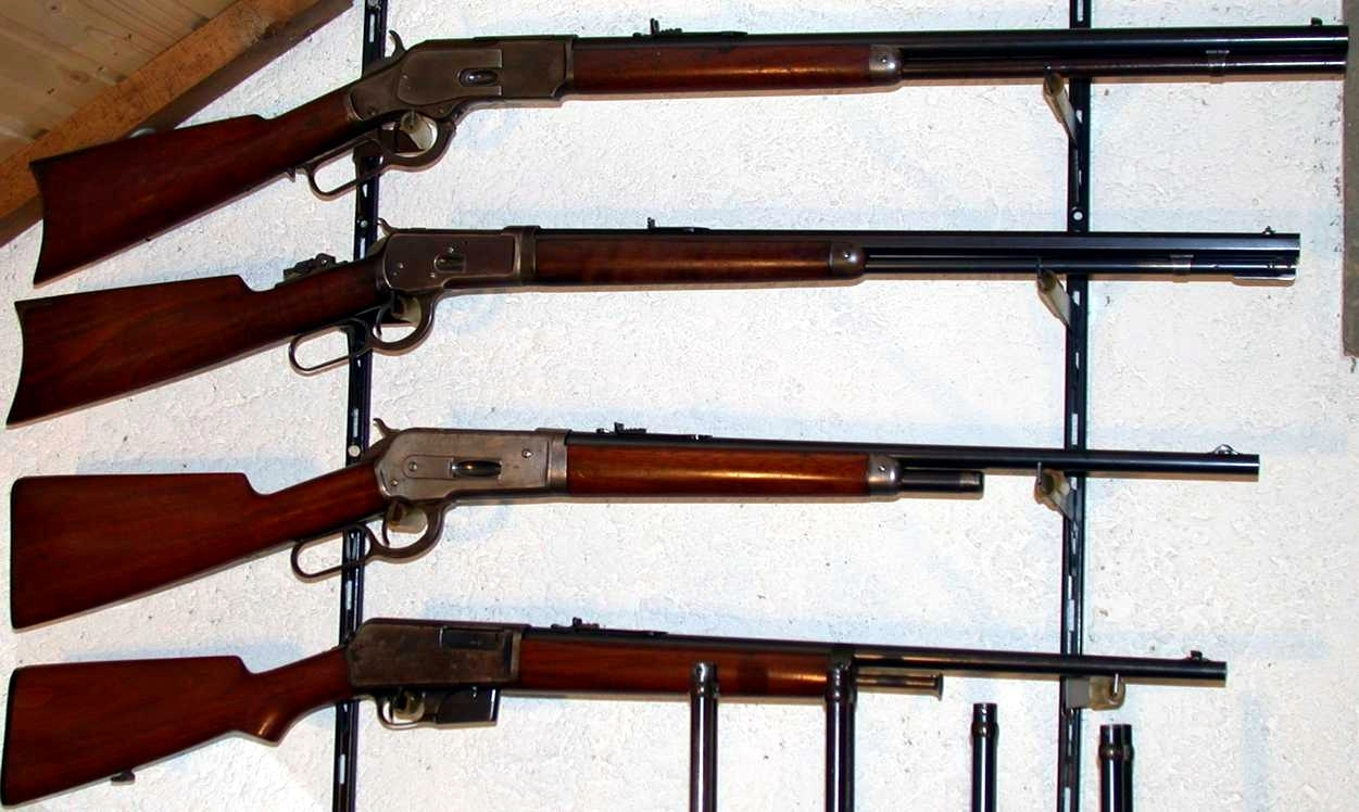 On top Winchester Model 73 Rifle, Model 86 Extra Light Take Down .45-70 caliber, Mod 92 Take Down, Model 05 Self Loading .32SL caliber